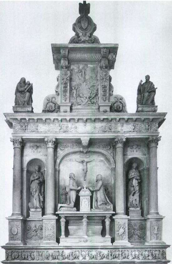 Epitafiet i Voer Kirke